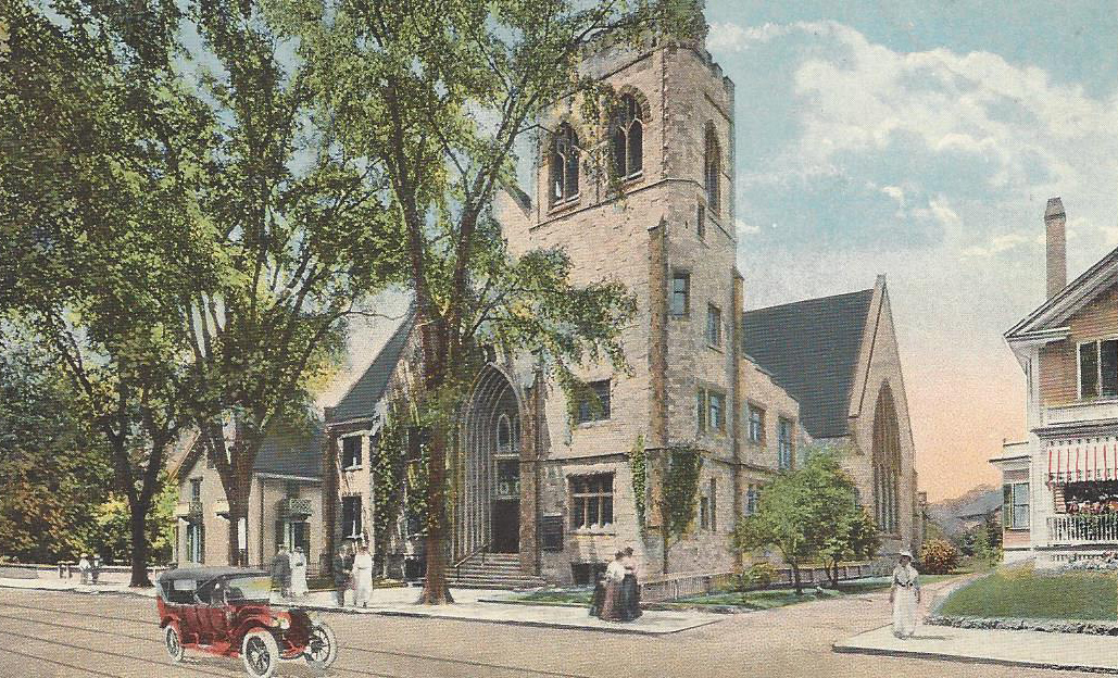 Winslow congregational church, Taunton Massachusetts. Postcard ca 1913.